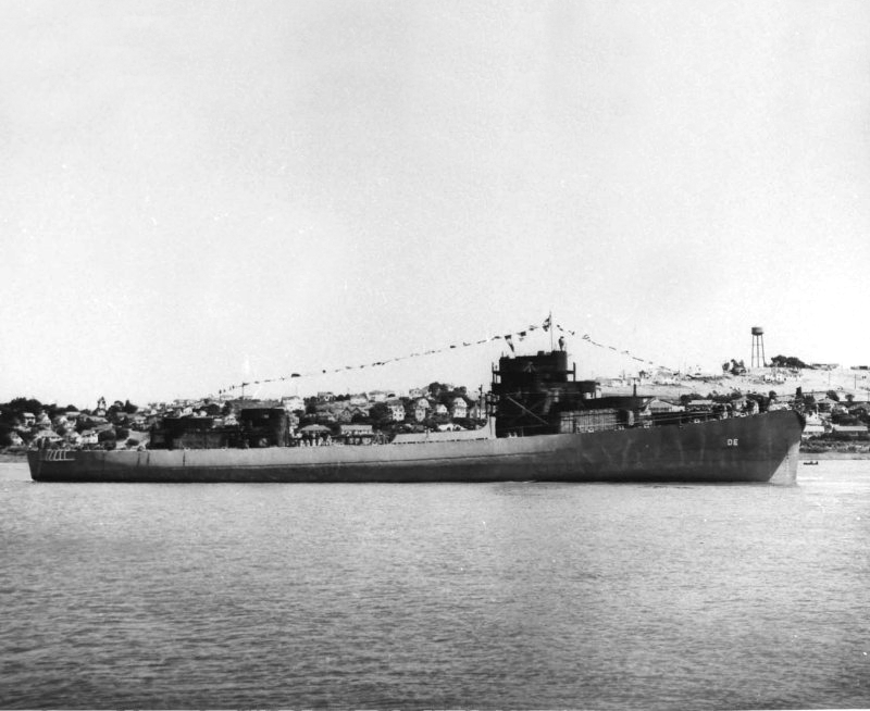 The U.S. Navy destroyer escort USS Eisele (DE-34) immediately after her launching at the Mare Island Naval Shipyard, California, (USA), on 29 June 1943.